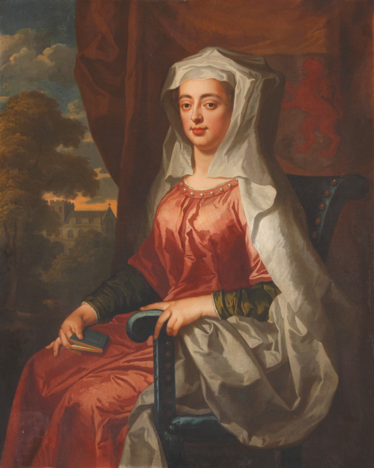 Painting of Dervorguilla of Galloway (died 1290) by Wilhelm Sonmans. Oil on canvas, 127 x 101.5 cm. The painting is located at Bodleian Libraries, University of Oxford.